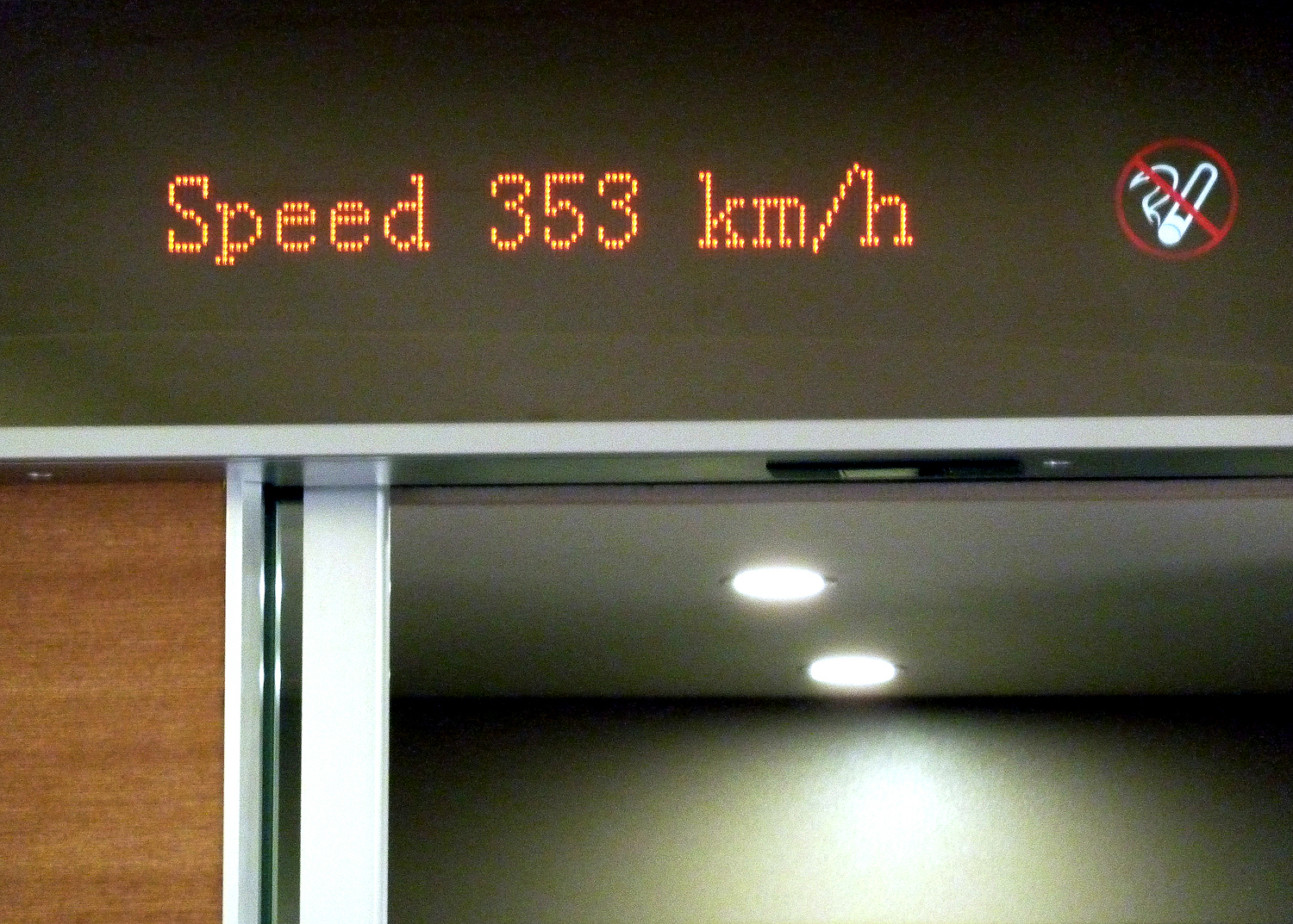 Speed of Shanghai -Hangzhou high speed CRH train